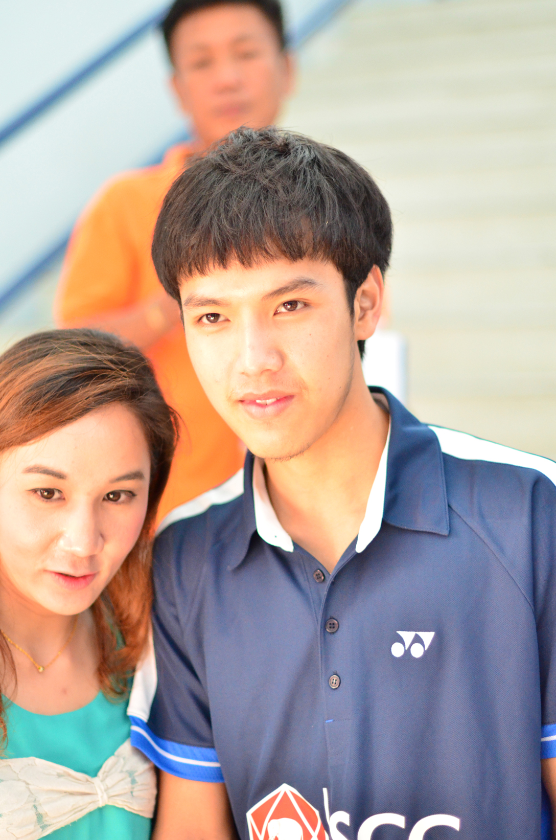 Sitthikom Thammasin